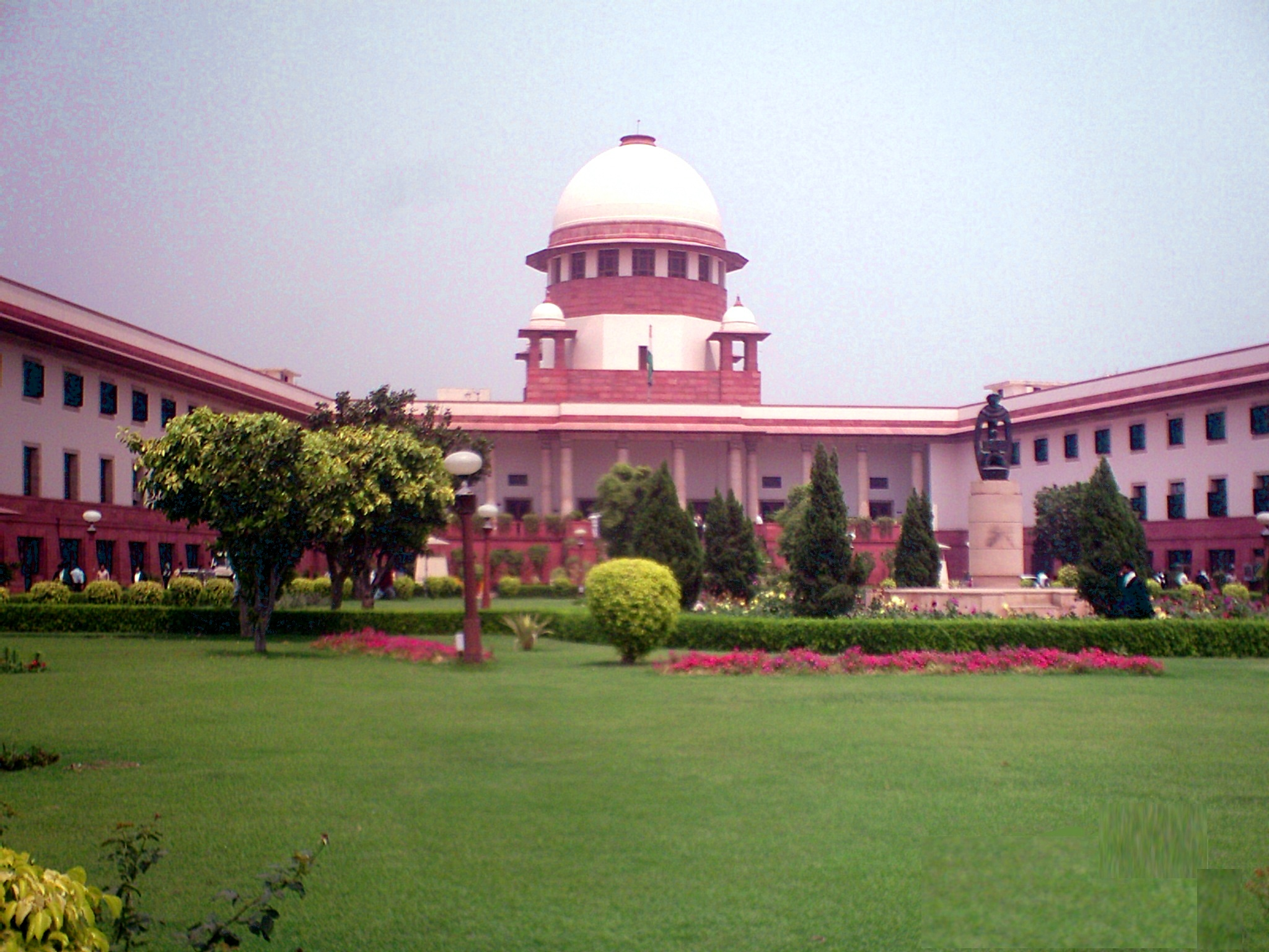 The Supreme Court of India, photographed about 170 metres from the main building outside the perimeter wall.